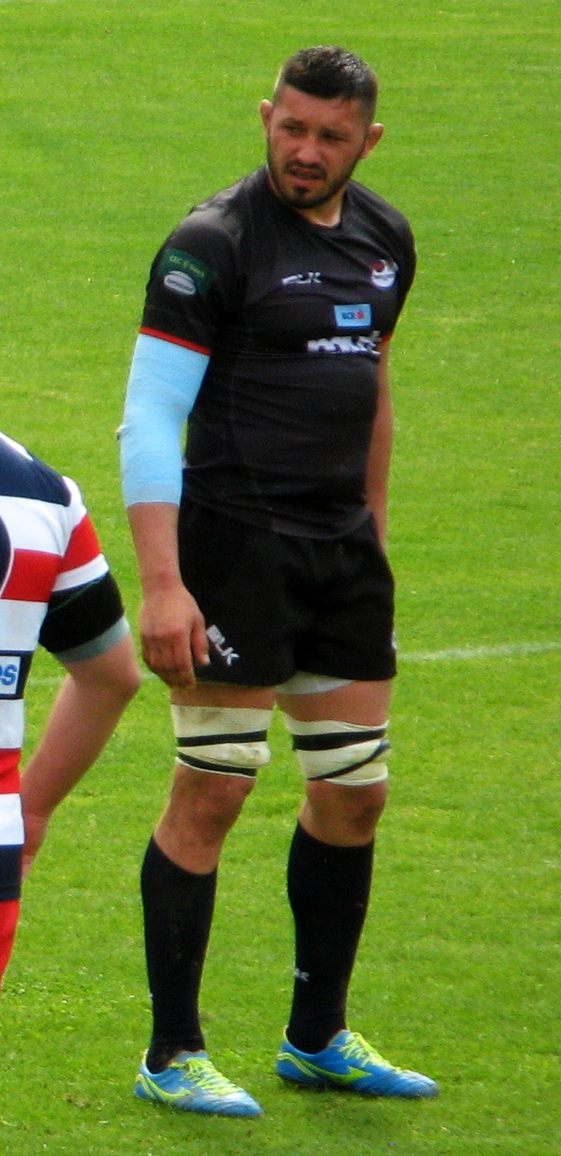 Romanian International Valentin Popârlan, rugby union player of Timișoara Saracens rugby club seen in a match against CSA Steaua București in Romanian Rugby SuperLiga in April 2017